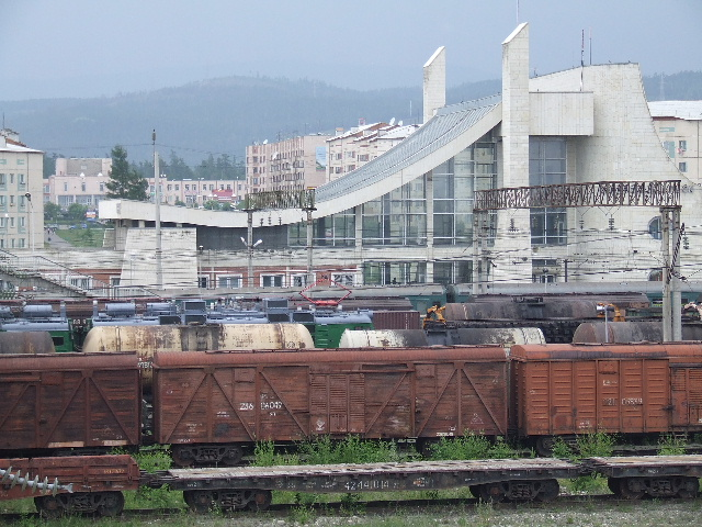 railway station of Severobaykalsk, Buryatia, Russia